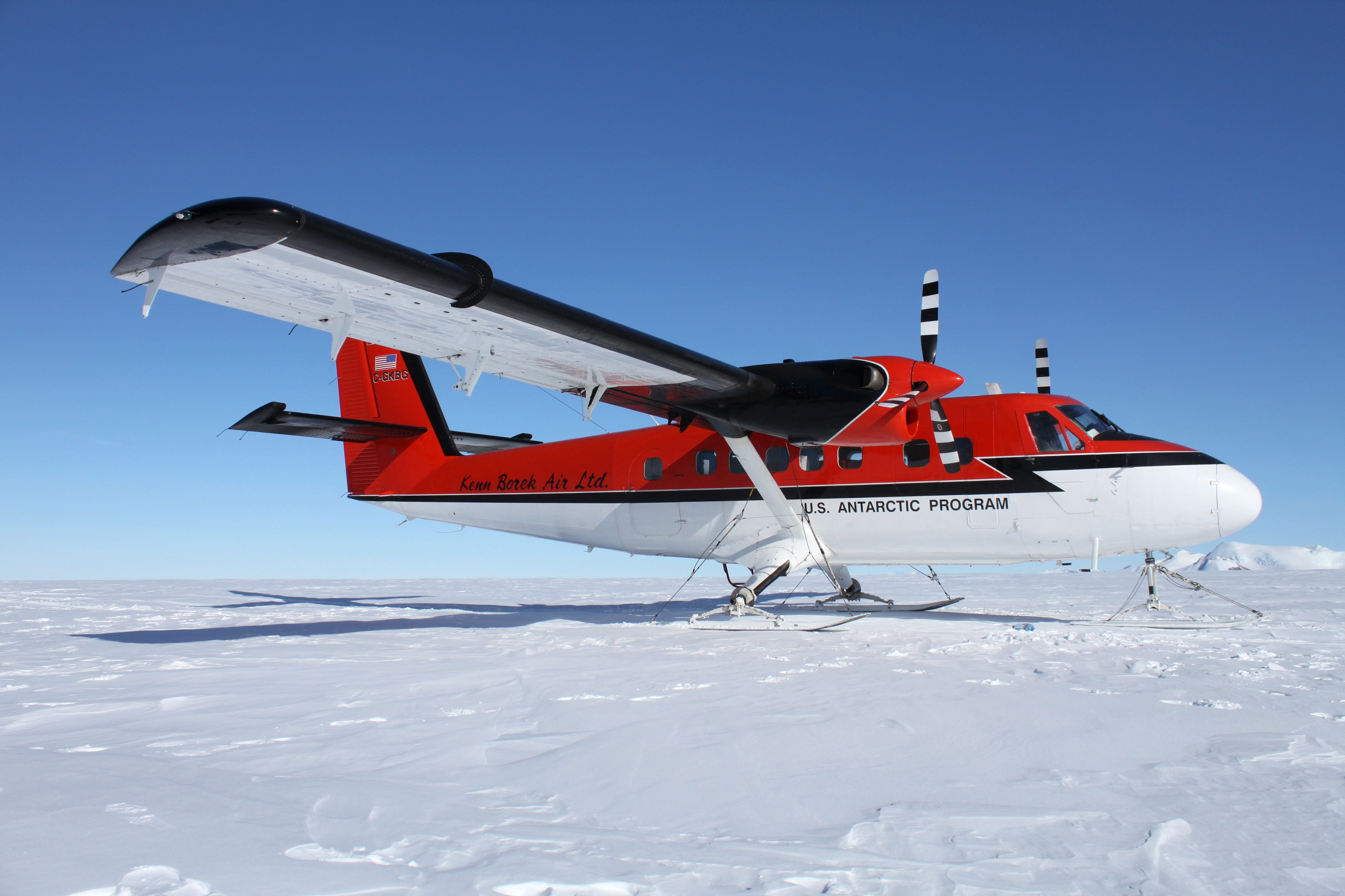 A Twin Otter operated by the U.S. Antarctic Program on a trip to Cape Lankester